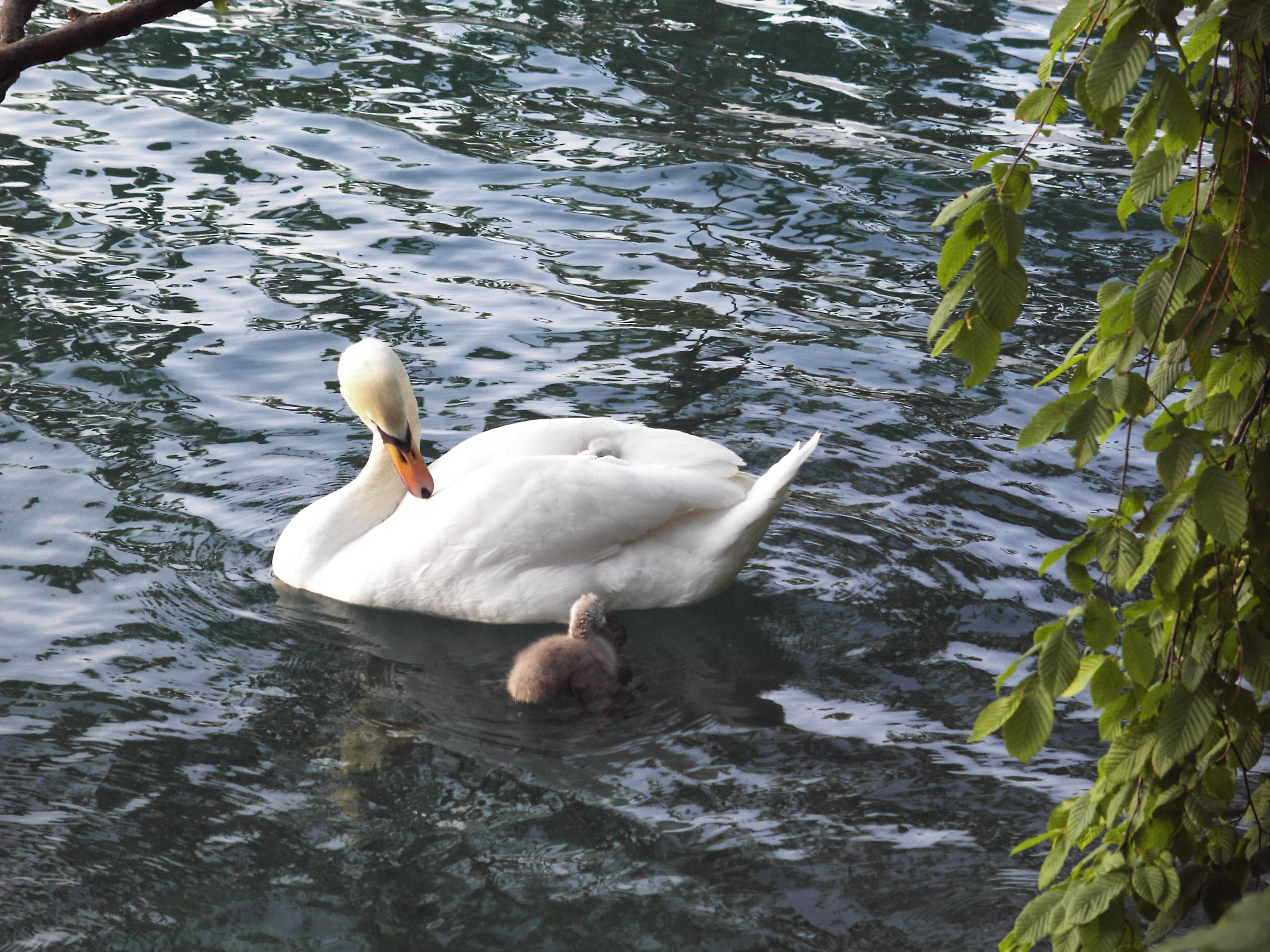 Swan with cubs - Lake Bled, Slovenia